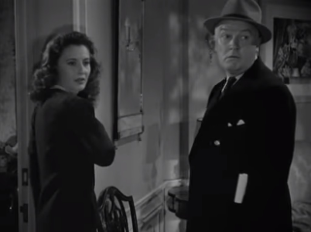 Barbara Stanwyck and Charles C. Wilson in Meet John Doe - cropped screenshot